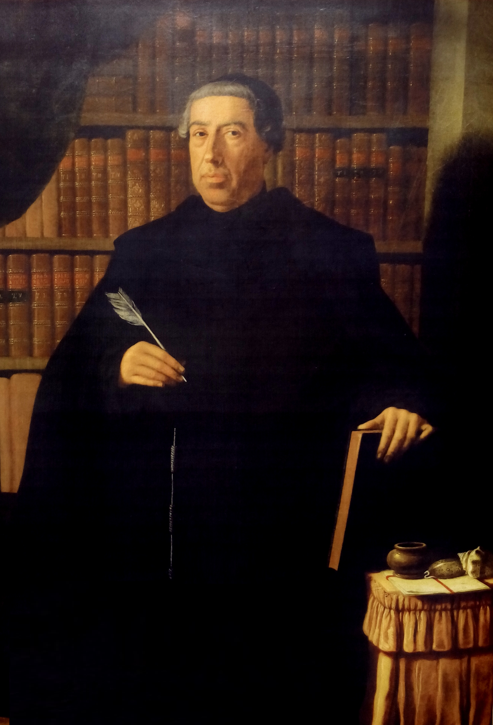 Father Joseph Mayne (1723-1792), Portuguese Catholic priest, pedagogue, and Confessor of King Peter III.